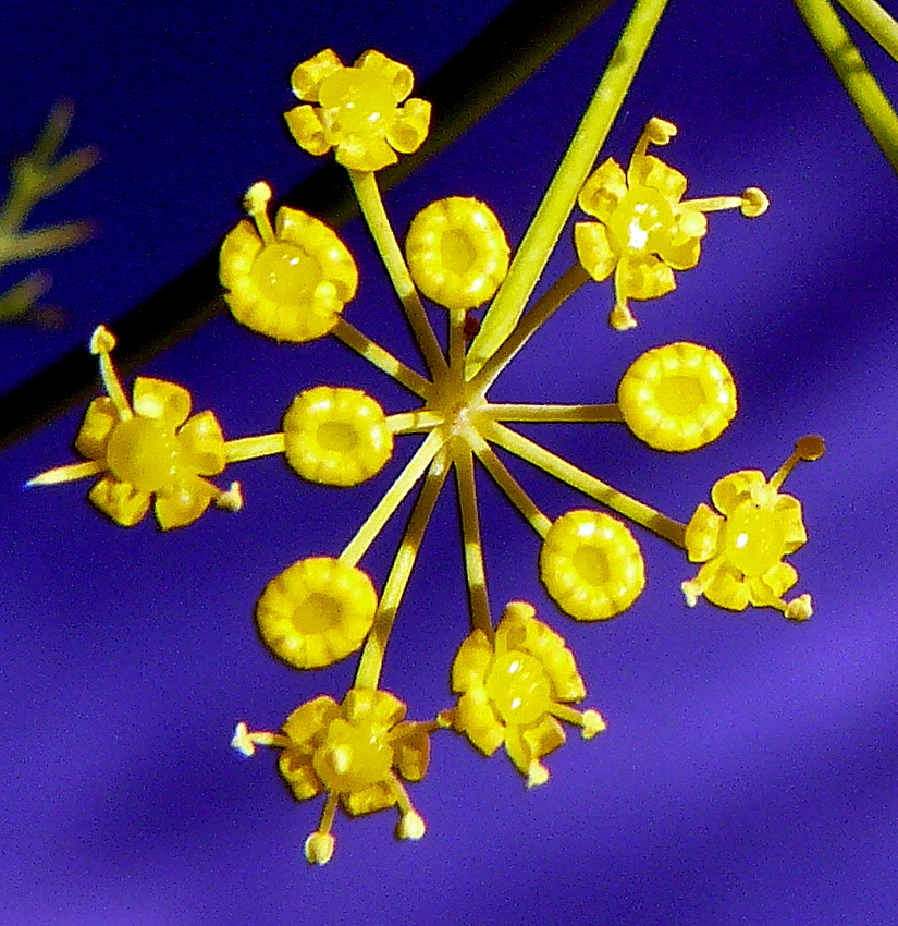 Dill flower (detail)